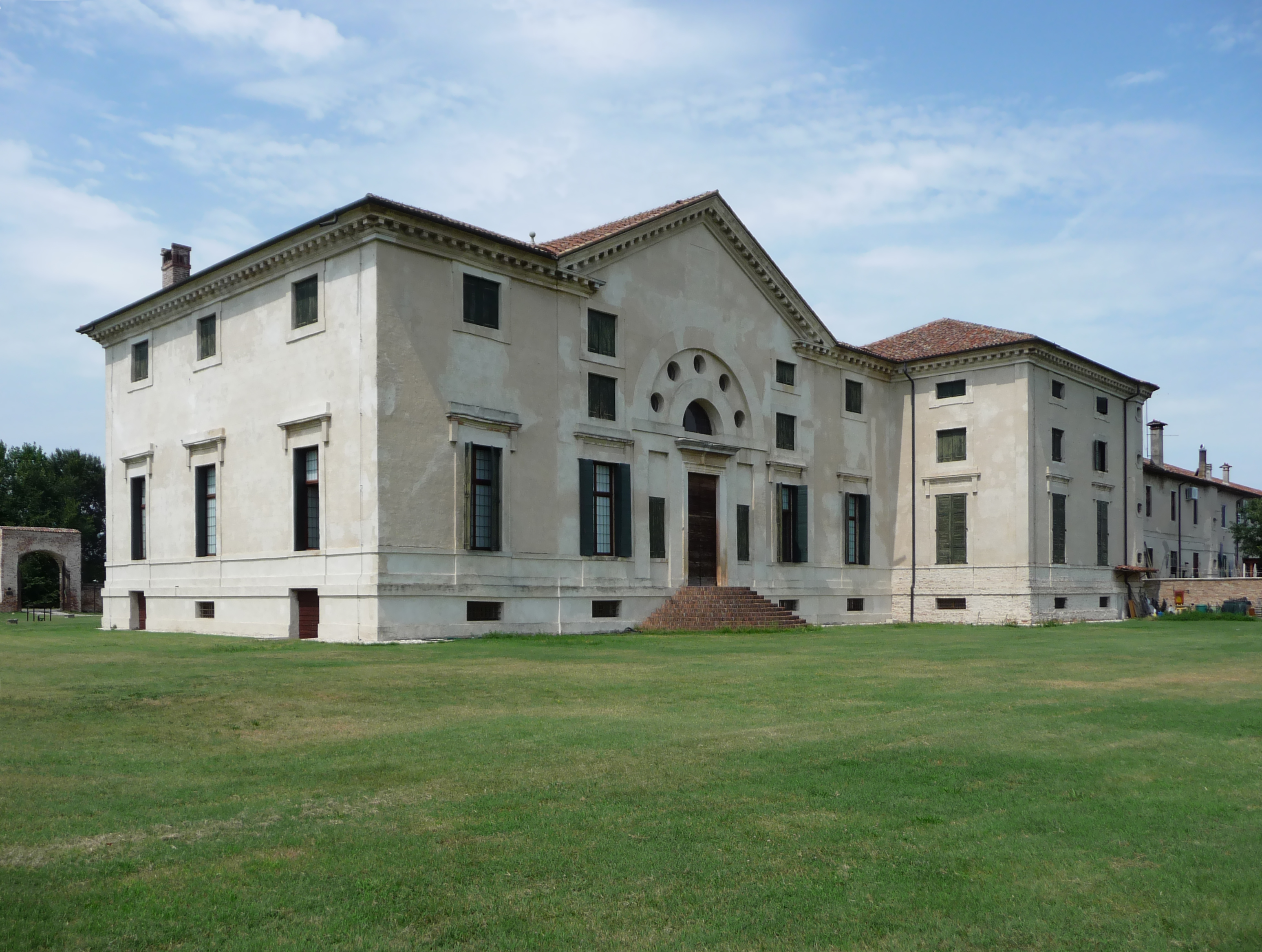 Villa Pojana is a patrician villa in Pojana Maggiore, a locality of the Veneto region of (northern Italy). It was designed by the Renaissance architect Andrea Palladio.